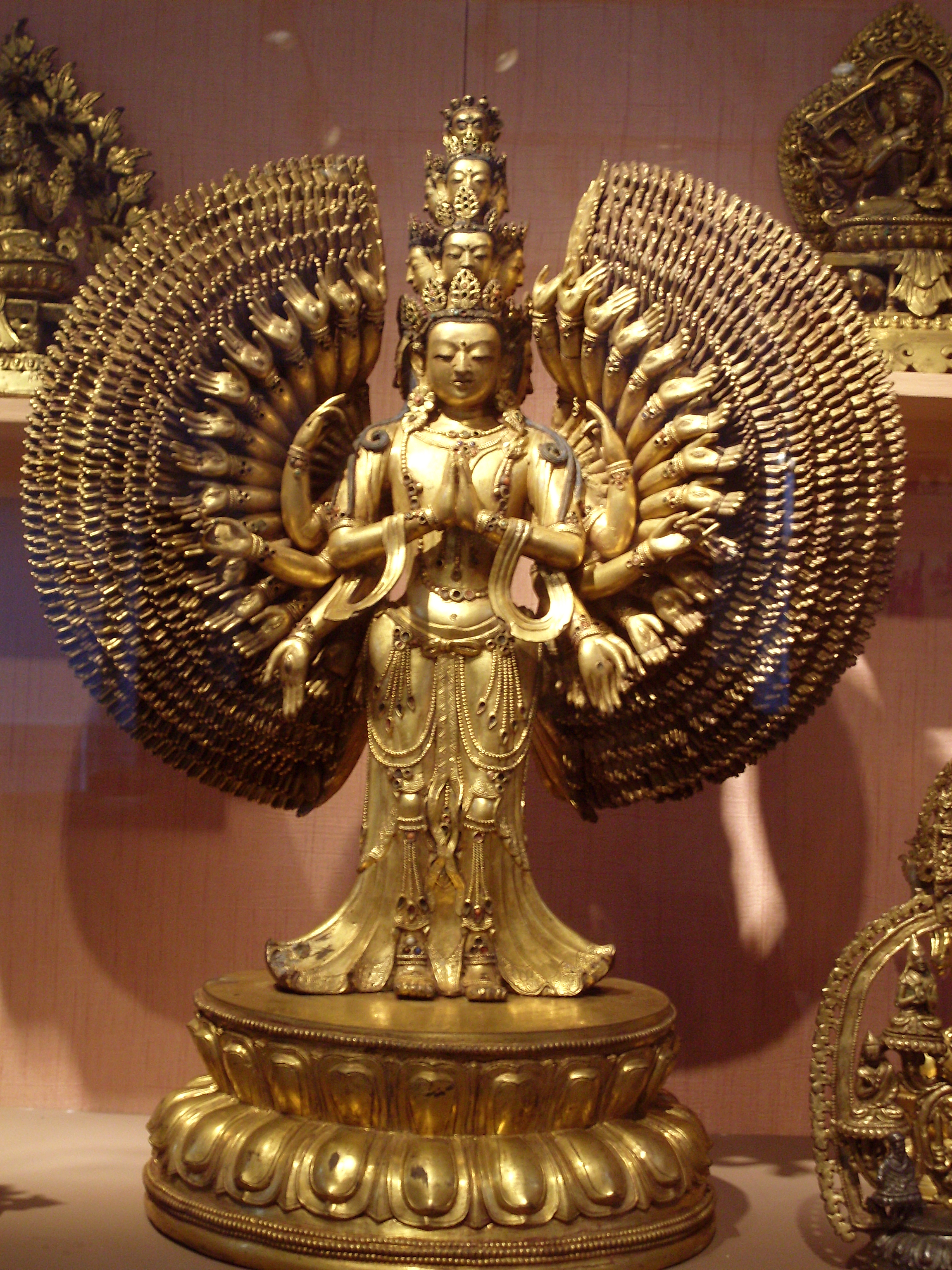 Statue of the thousand-armed Avalokiteshwara, once displayed at the University of Pennsylvania Museum of Archaeology and Anthropology (Accession number A1440). This 53 cm tall brass statue from Tibet belongs to the 18th Century, depicts a bodhisattva form with 1000 arms and 11 heads. Inside each palm, the deity has an eye. The story behind the deity is that the bodhisattva, out of his profound compassion for the suffering earthly beings, struggled to help them attain nirvana. He tried reaching out to every earth-bound being and in the process lost both his hands. Seeing his plight, Buddha blessed him with eleven heads and a thousand arms each with eyes on it. Avalokitesvara is venerated in the thousand-armed form as the god of profound compassion in Tibetan, Chinese and Japanese Buddhism.